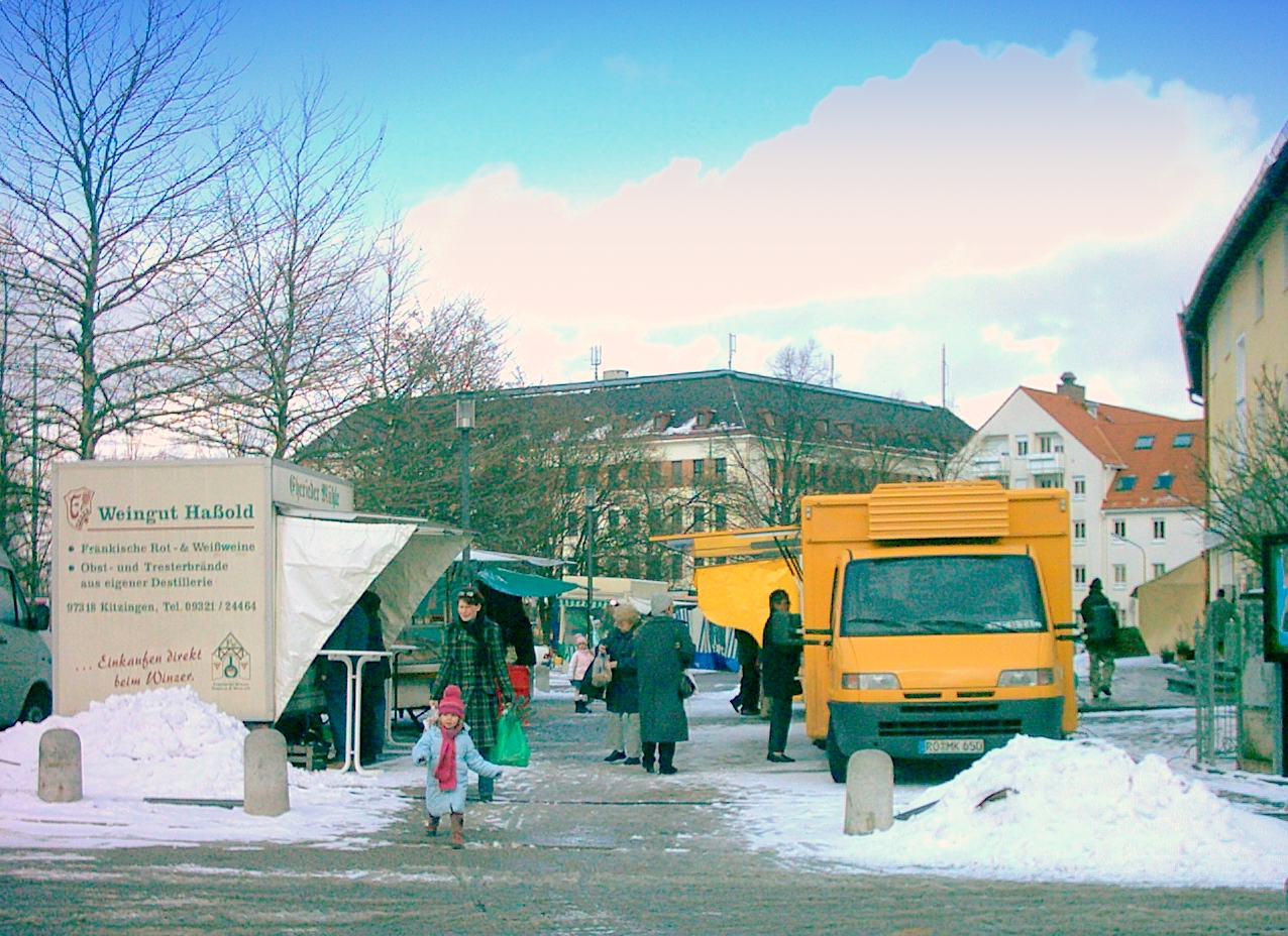 Weekly market at Mangfallplatz, Munich-Harlaching, in the background former University of Maryland